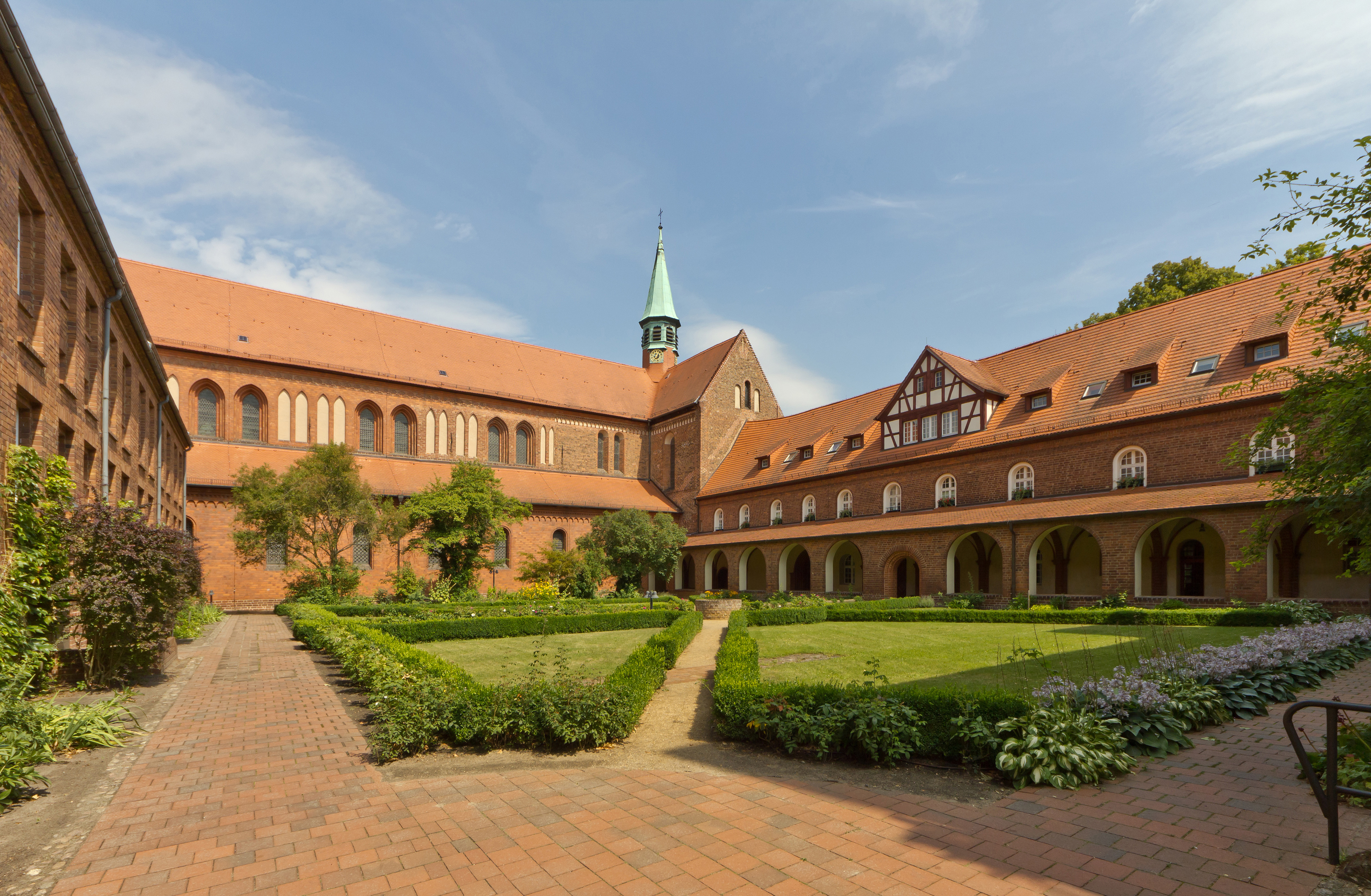 Cloister garden courtyard and St. Marien church (rear) of the Kloster Lehnin (Lehnin abbey, a German Brick Gothic era monastery near Brandenburg/Havel, in Landkreis Potsdam-Mittelmark, Brandenburg).